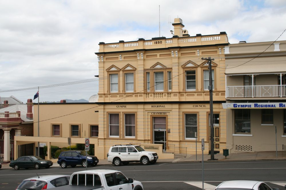 Bank of New South Wales (former) (2011), Gympie